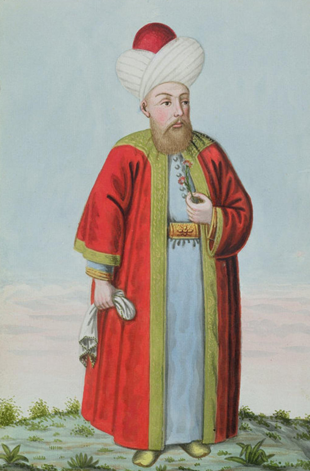 Portrait of Murad II, Sultan of the Ottoman Empire (1421-1451). The portrait has been printed using the Giclée process.